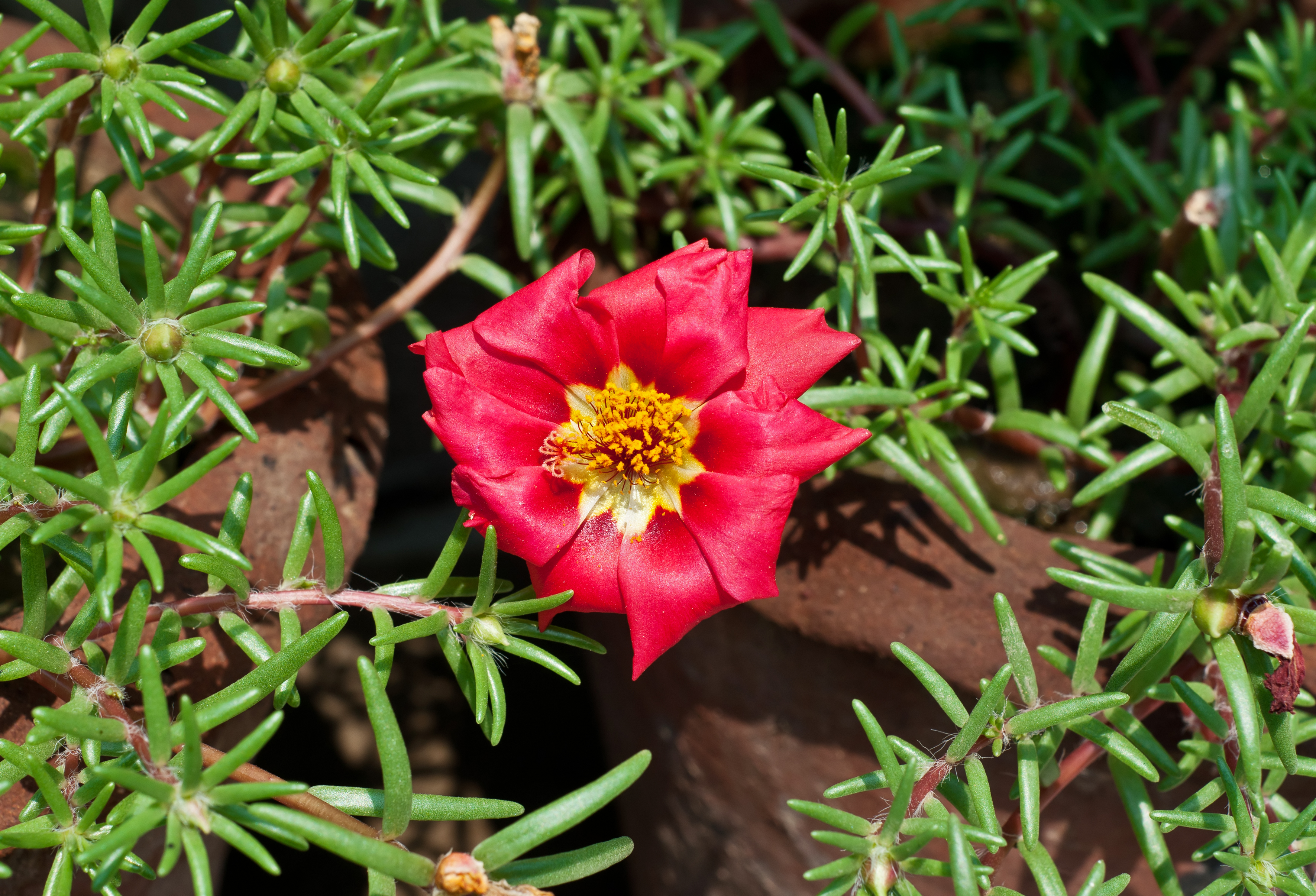 Red Moss-rose, Portulaca grandiflora. Taken at Burdwan, West Bengal, India.